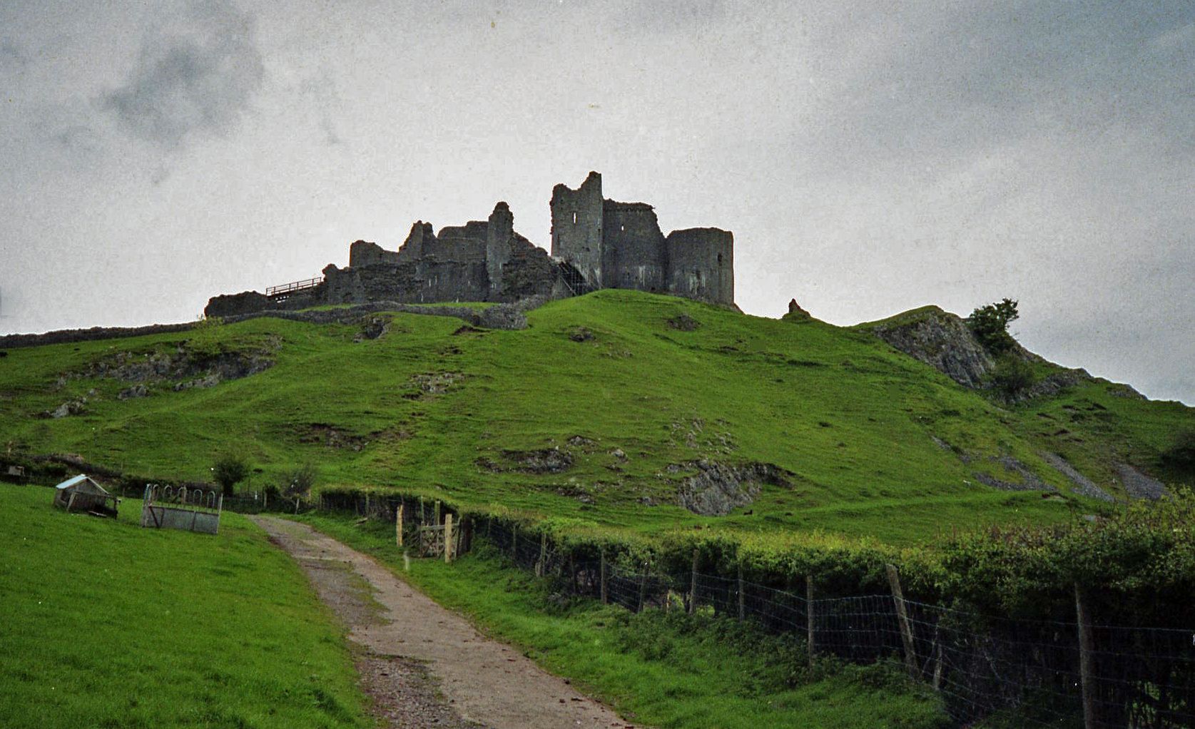 Throughout its active existence Carreg Cennen was a scene of constant battles, exchanging hands many times, not just between the English and the Welsh, but between feuding Welsh families. The building seen here was remodelled in about 1300 from an original built in 1180. It was finally reduced by the House of York in 1461 during the Wars of the Roses, and has remained a ruin ever since